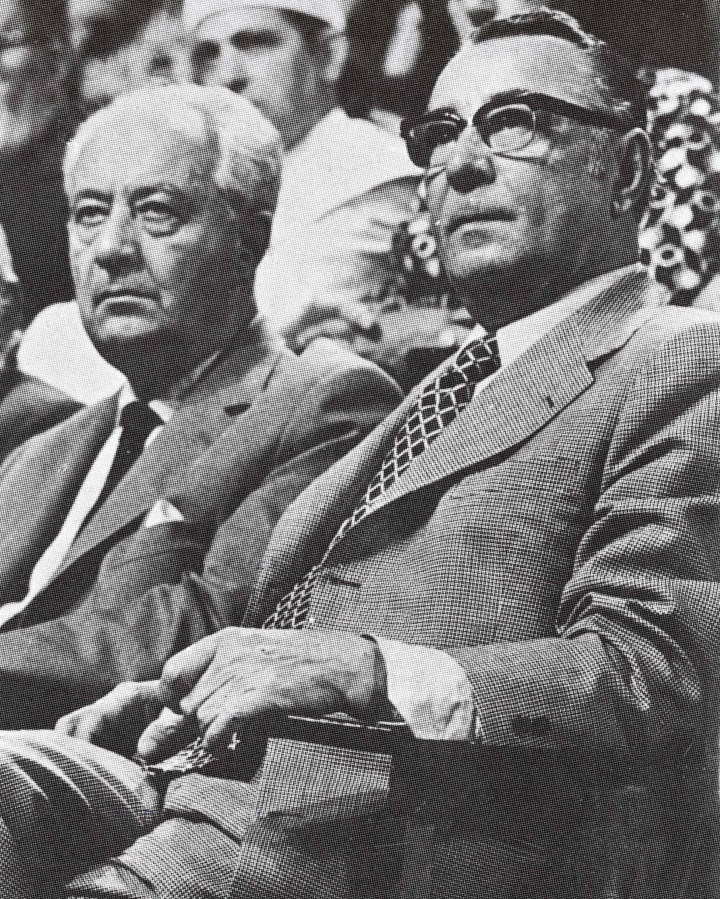 Parviz Natel-KhanlariParviz Natel-Khanlari